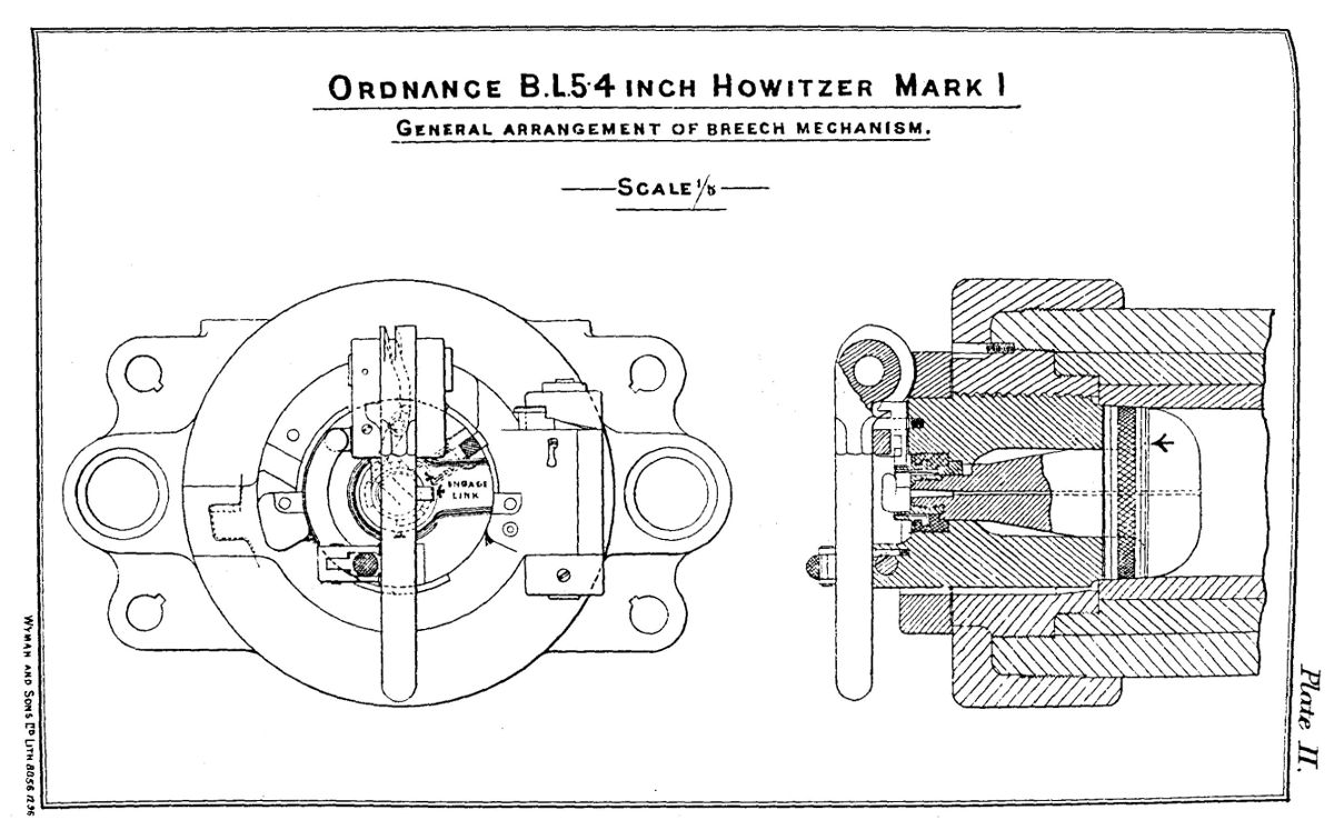 Diagrams depicting breech mechanism of British BL 5.4 inch howitzer.